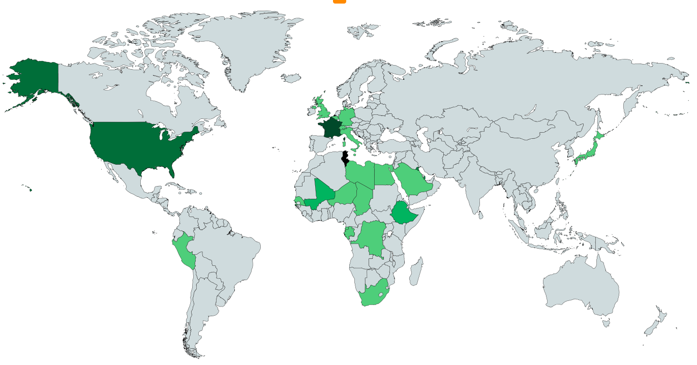 Foreign trips by Moncef Marzouki as President of Tunisia.